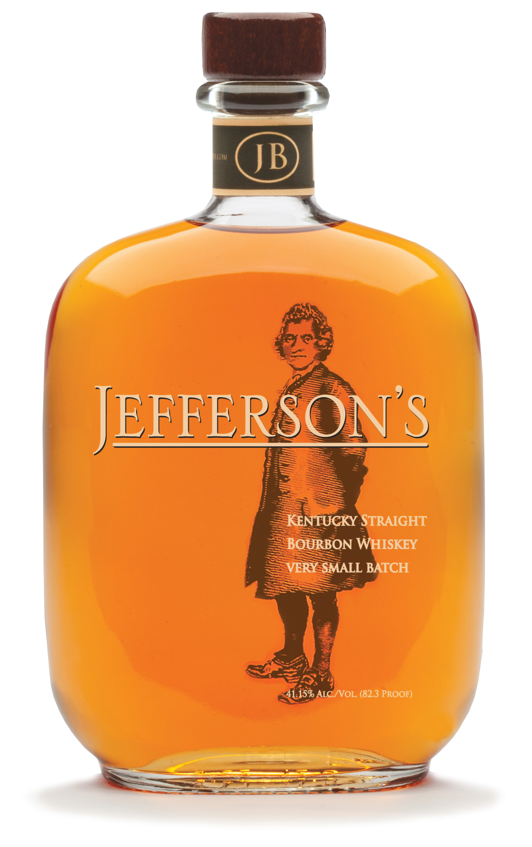 Jefferson's Small Batch Bourbon bottles hot